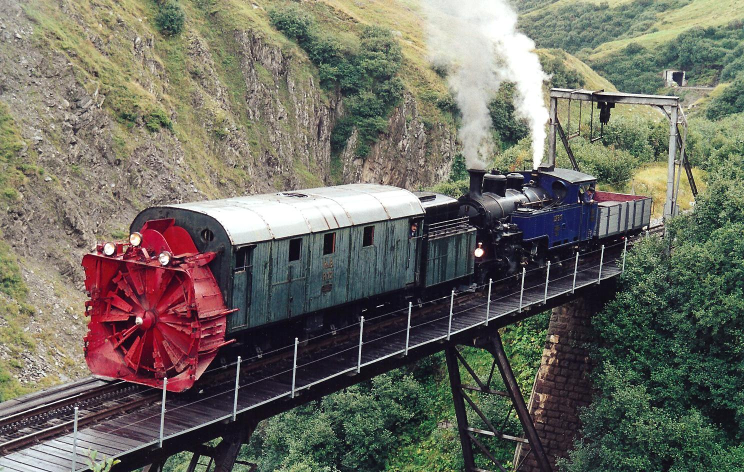 Rotary snow plough RhB R 12 on its way from Gletsch to Realp in September 2002 before its refurbishment in Goldau. It is pushed by steam locomotive 1 of the Dampfbahn Furka Bergstrecke (DFB). Photo taken at the Steffenbach bridge.